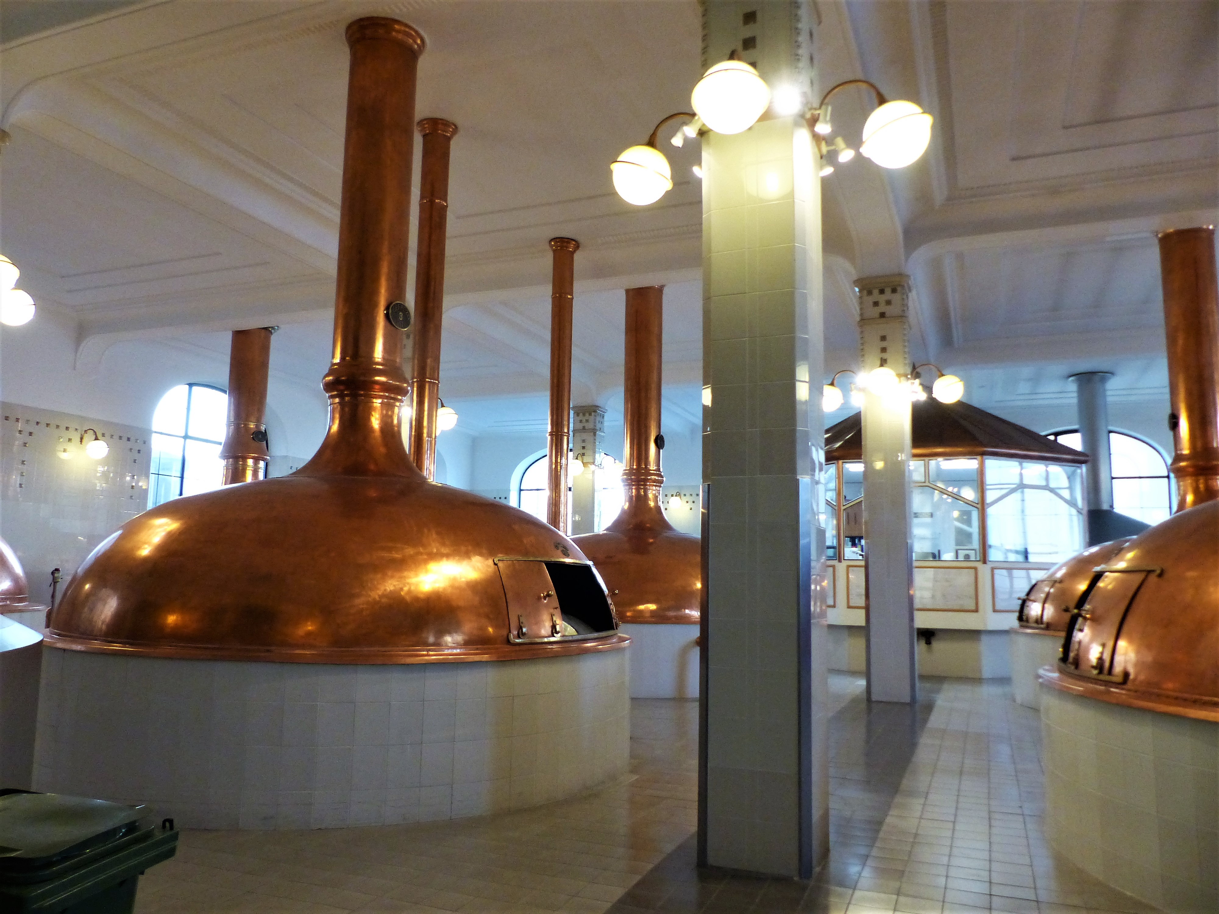 Dreher Sörgyárak Zrt. on the 22nd of February, 2019.